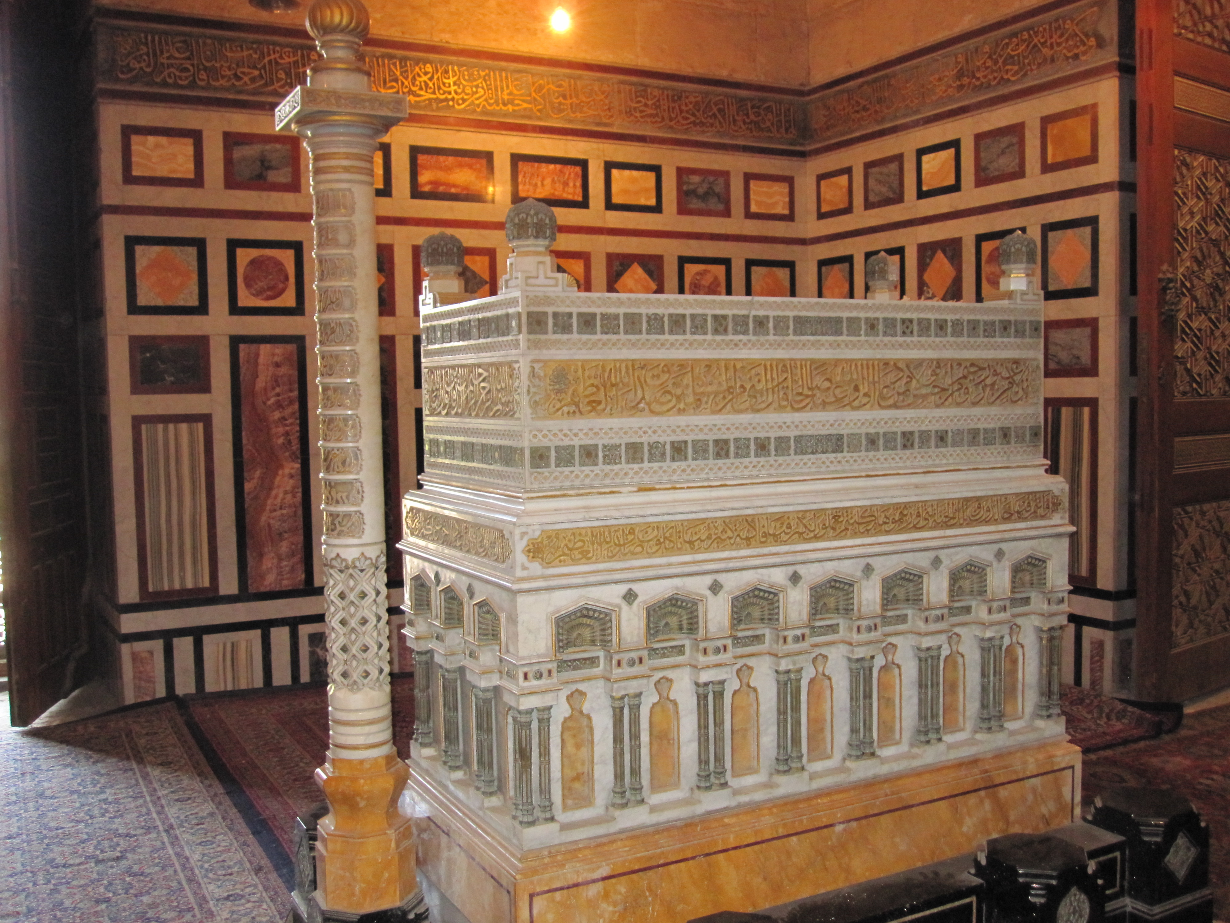 Tomb of King Fuad I of Egypt (1868–1936), located in the Rifa'i Mosque in Cairo.